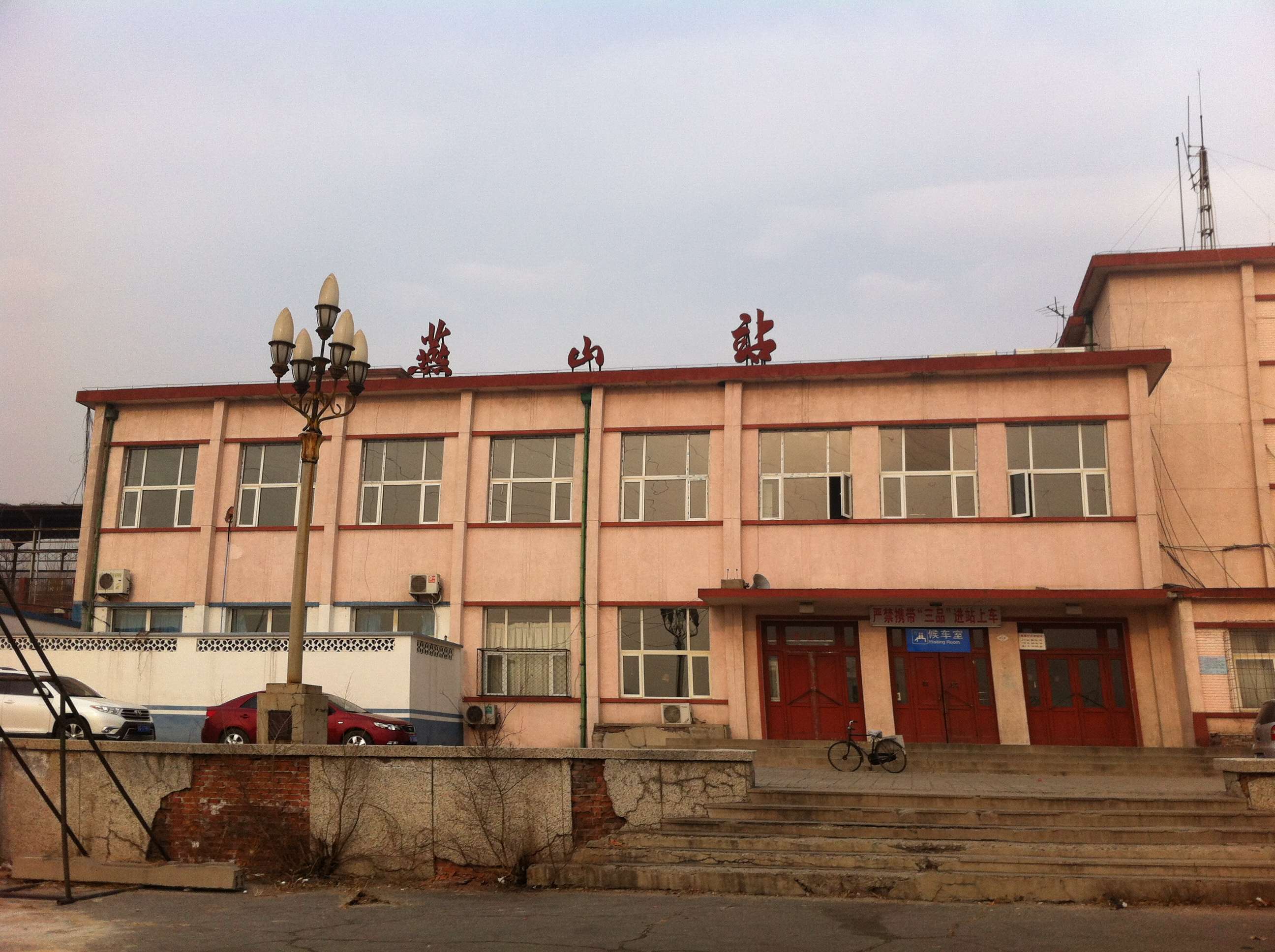 Yanshan Railway Station, a station on the Beijing-Yuanping Railway. The doors are closed, but there are staff...